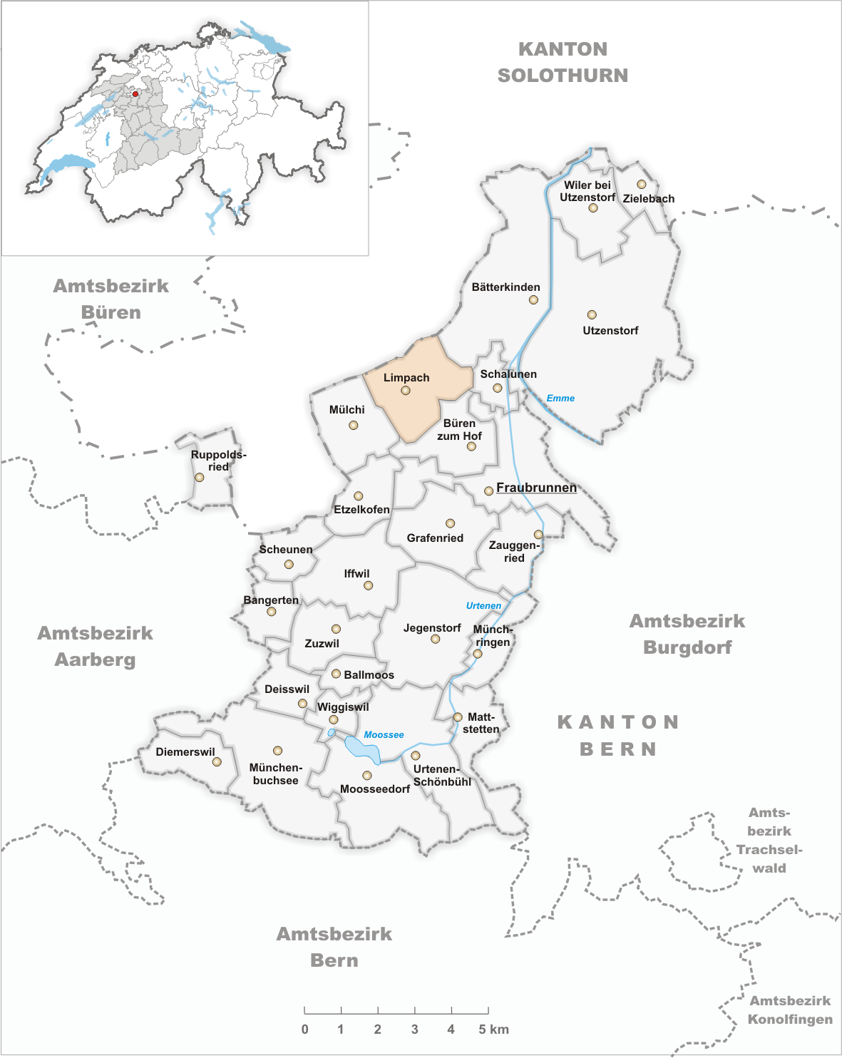 Municipality Limpach